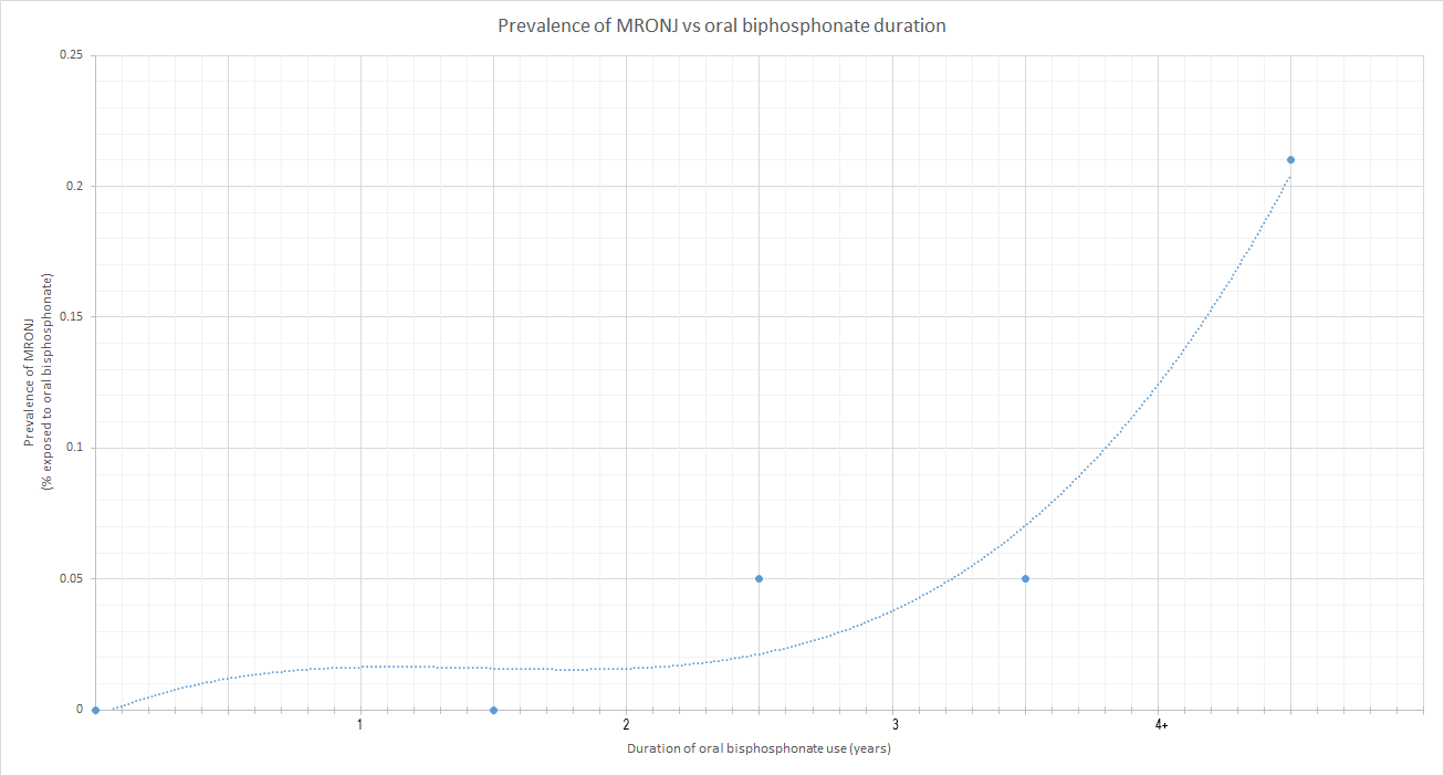 graph created from data from American Association of Oral and Maxillofacial Surgeons Position Paper on Medication-Related Osteonecrosis of the Jaw—2014 Update Original fda source no longer online